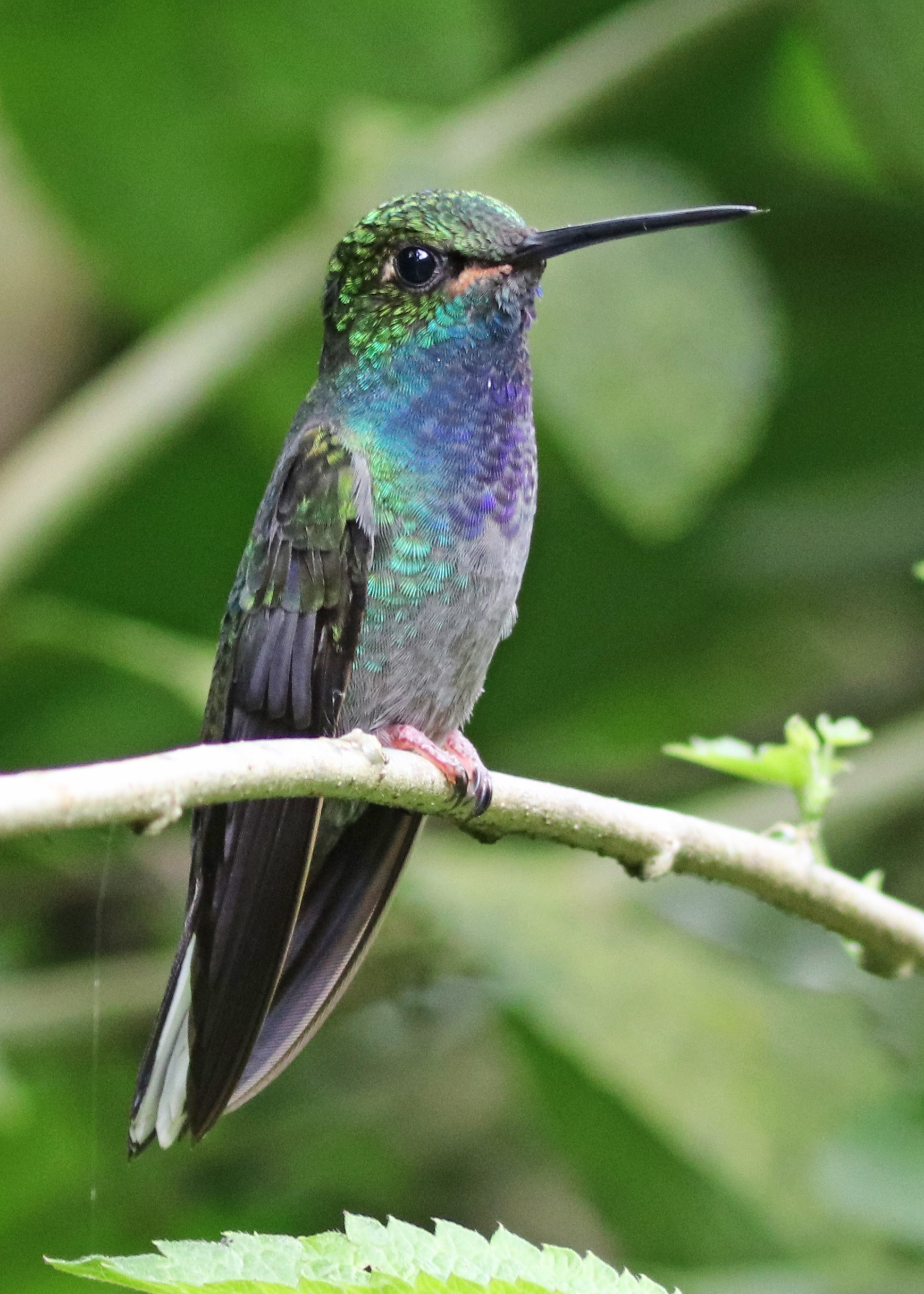 Photo of juvenile Green-backed Hillstar taken on the eastern slope of the Andes in northeastern Ecuador